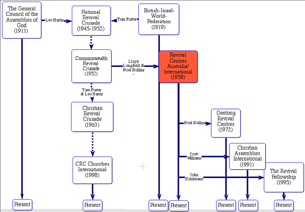 Made image myself. Based on written information and accounts. Topsaint (talk) 08:41, 18 December 2007 (UTC)